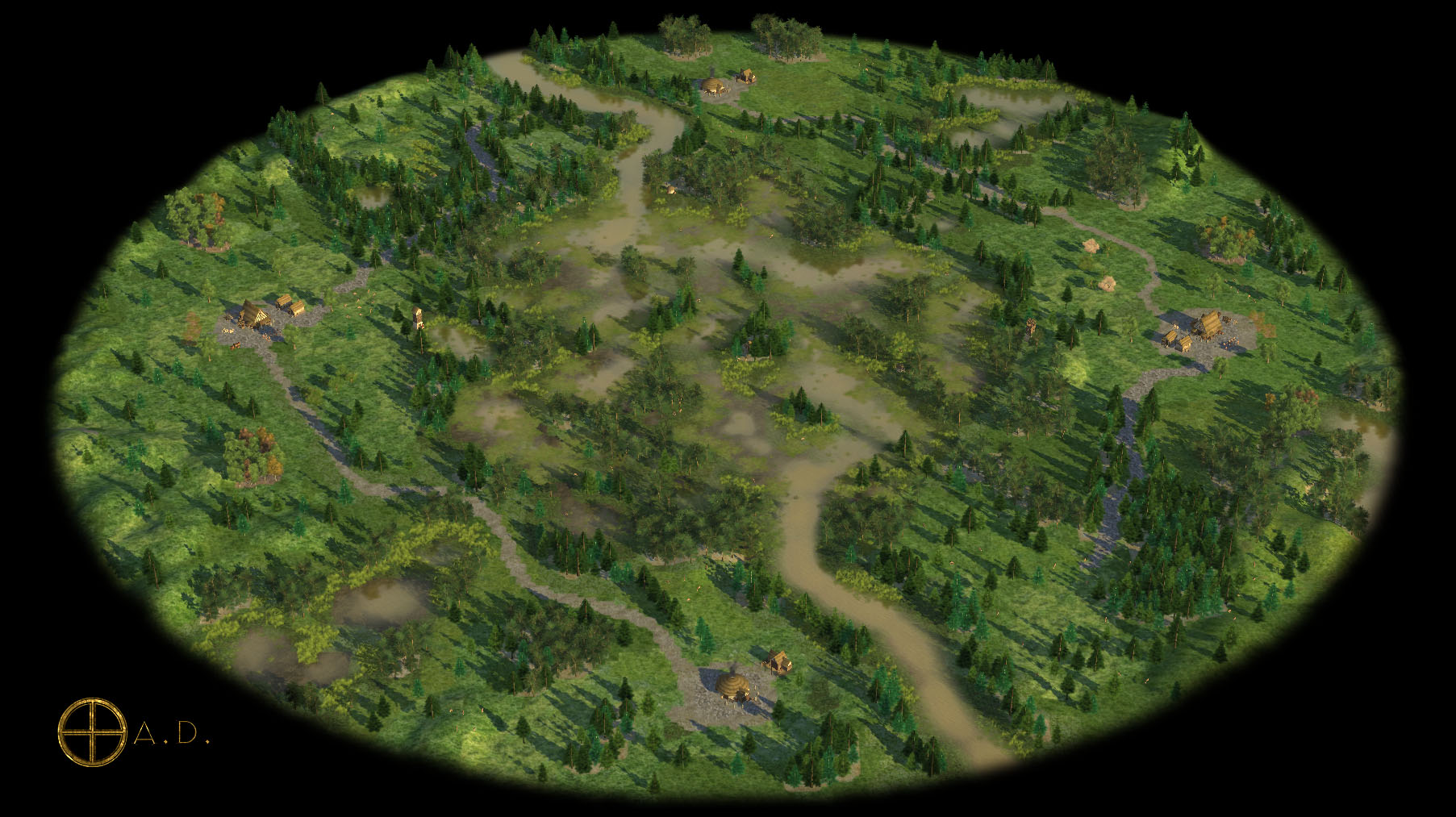 Belgian Bog map from the 0 A.D. game